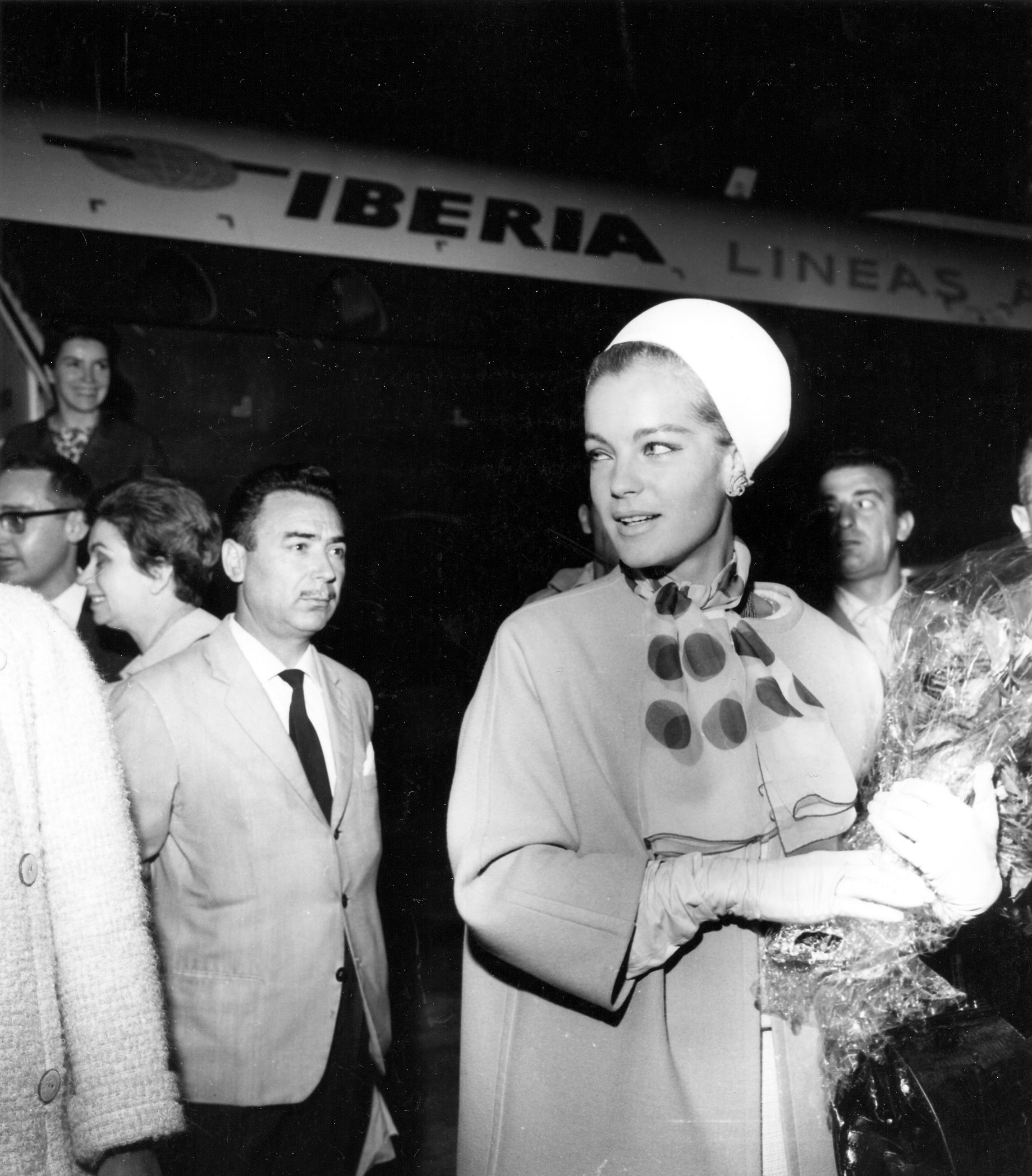 German actress Romy Schneider arriving at Madrid's Barajas airport on September 5, 1965.